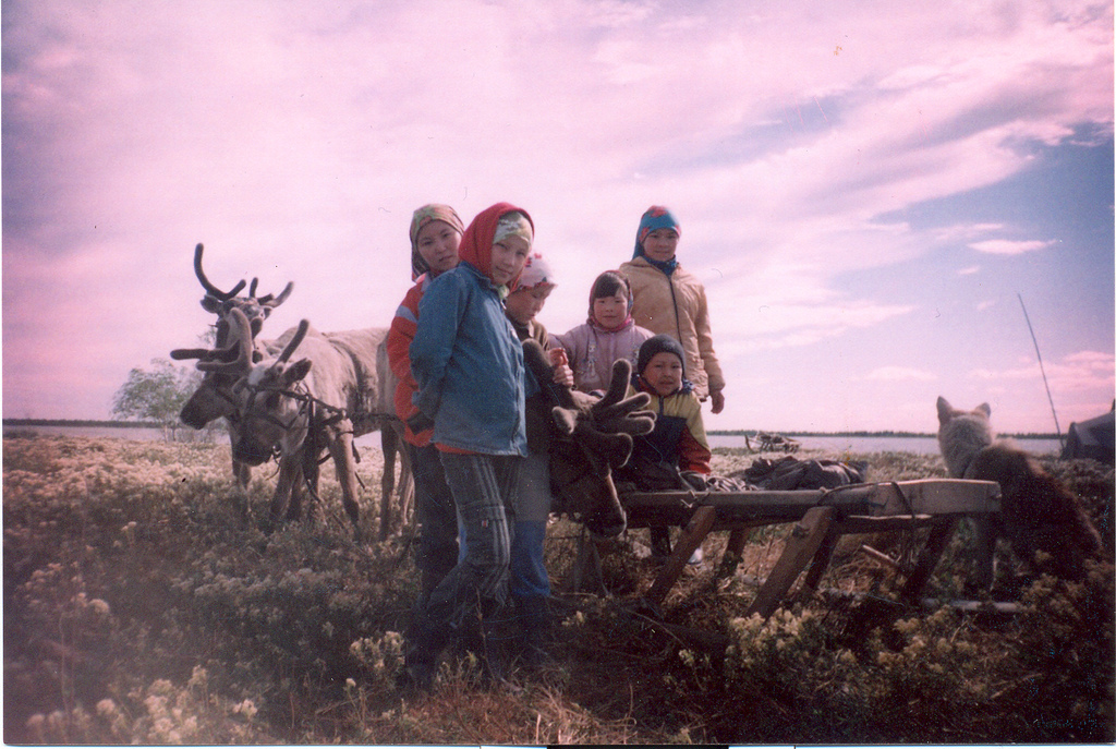 Khanty children pose for the camera in front of a reindeer sledge near Lake Numto, Khantia-Mansia, Russia